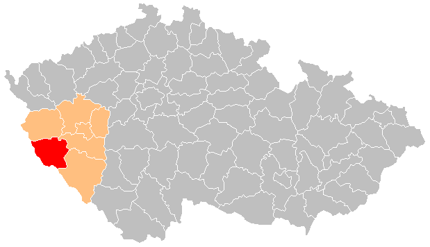 Domažlice District within Plzeň Region. Current borders of districts since January 1, 2007.